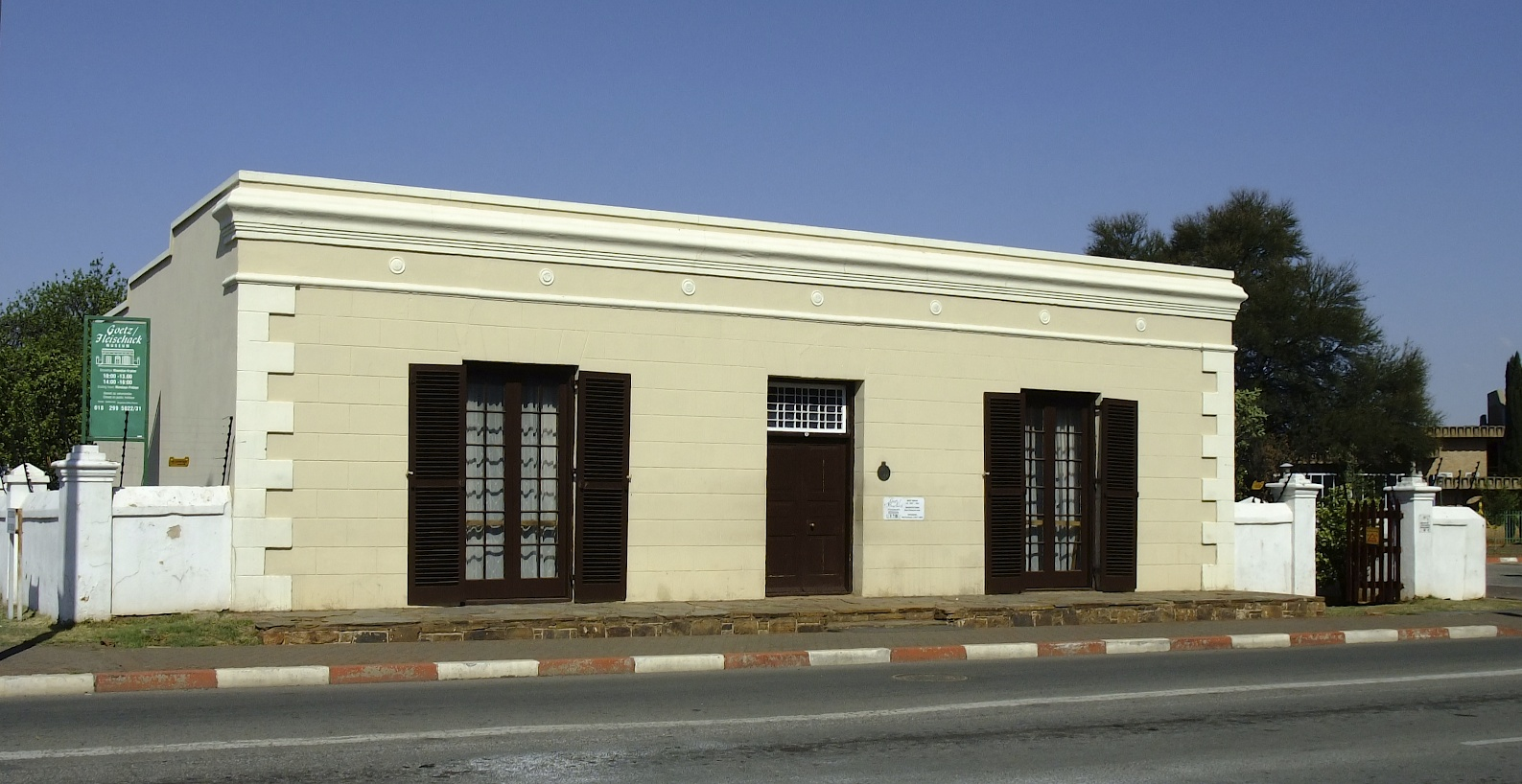 Goetz-Fleischack House, Gouws Street, Potchefstroom (new street name: Sol Plaatjie Ave) This media shows a South African Protected Site with SAHRA file reference 9/2/256/0035.